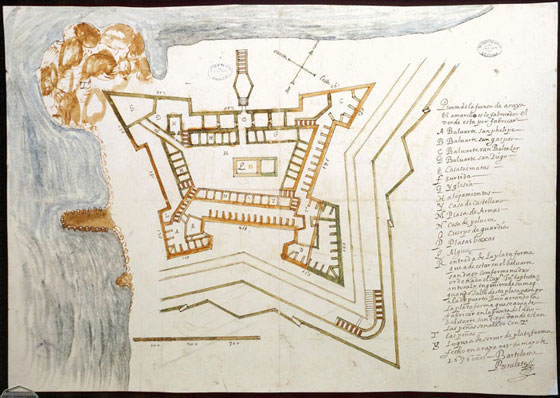 Plano del castillo de Araya c.1636.